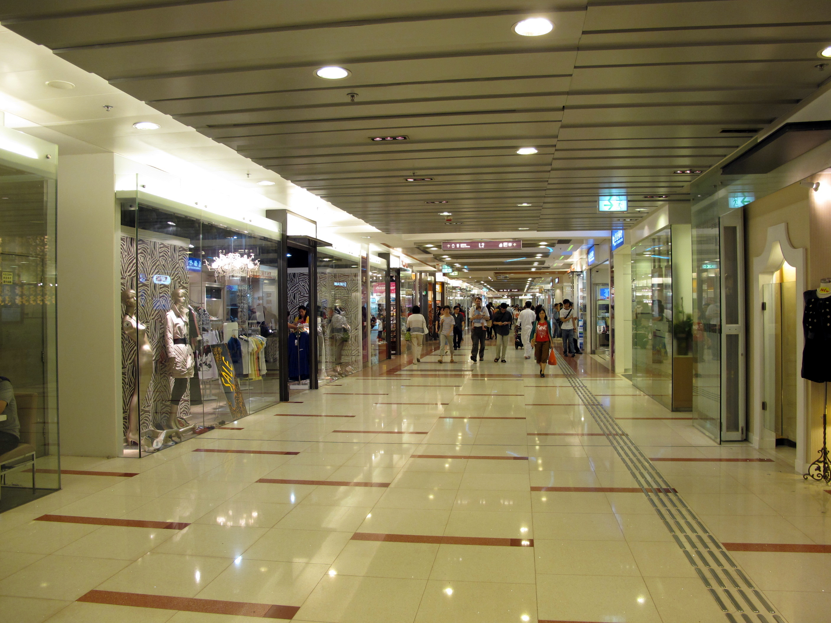 Metro Town Shopping Arcade Access